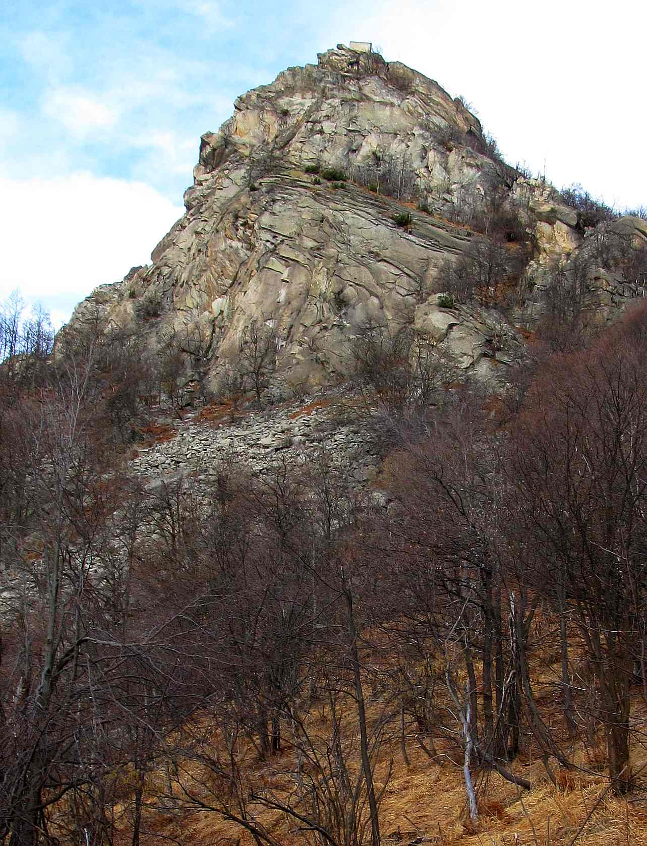 Mount Tre Denti (Cottian Alps, TO, Italy): eastern spur from Rumiano pass